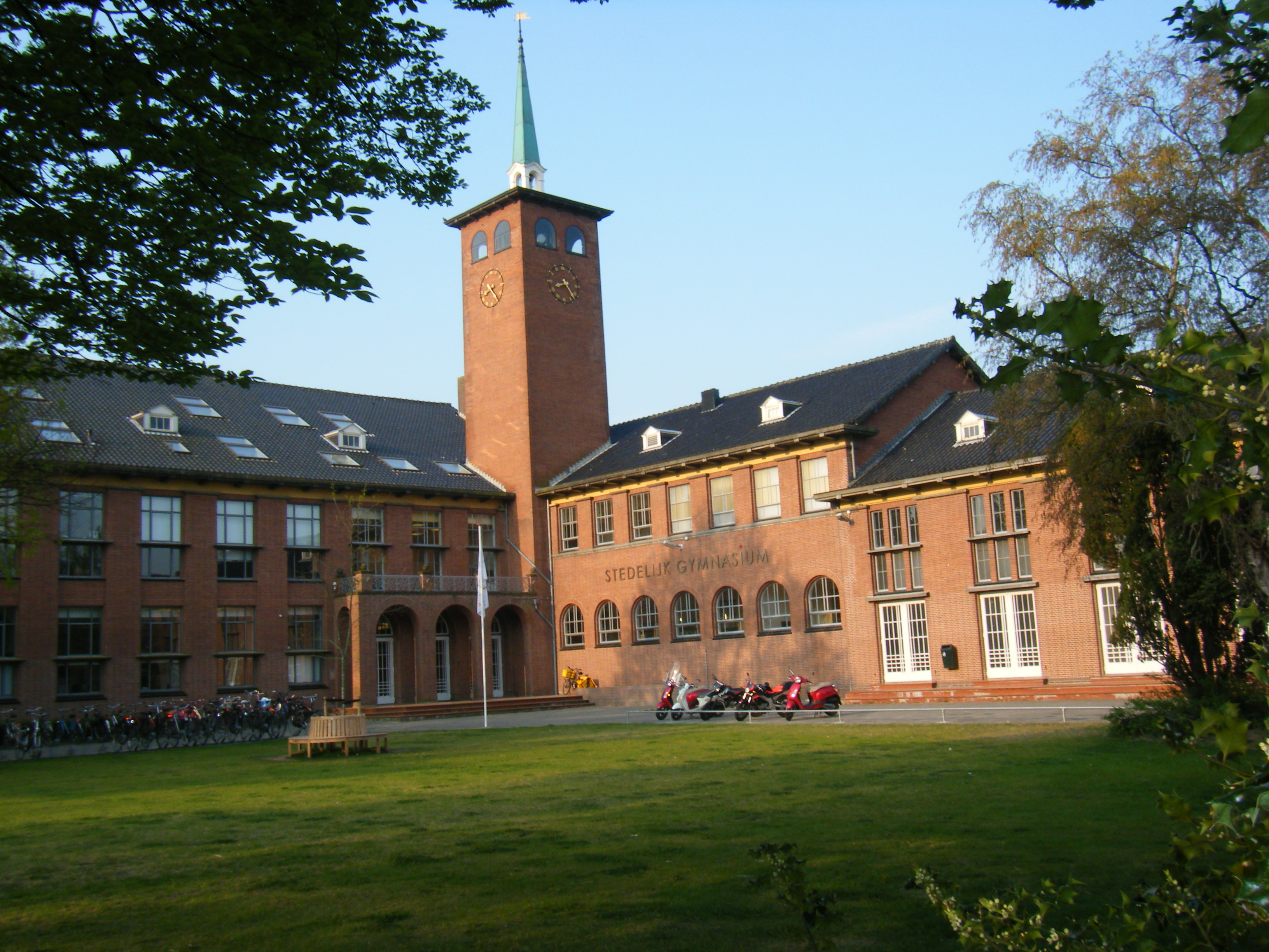 Stedelijk Gymnasium Leiden, locatie Fruinlaan, The Netherlands. Architect Jan Neisingh